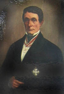 Inforamtion sign at spa gardens in Bad Oeynhausen, District of Minden-Lübbecke, North Rhine-Westphalia, Germany.